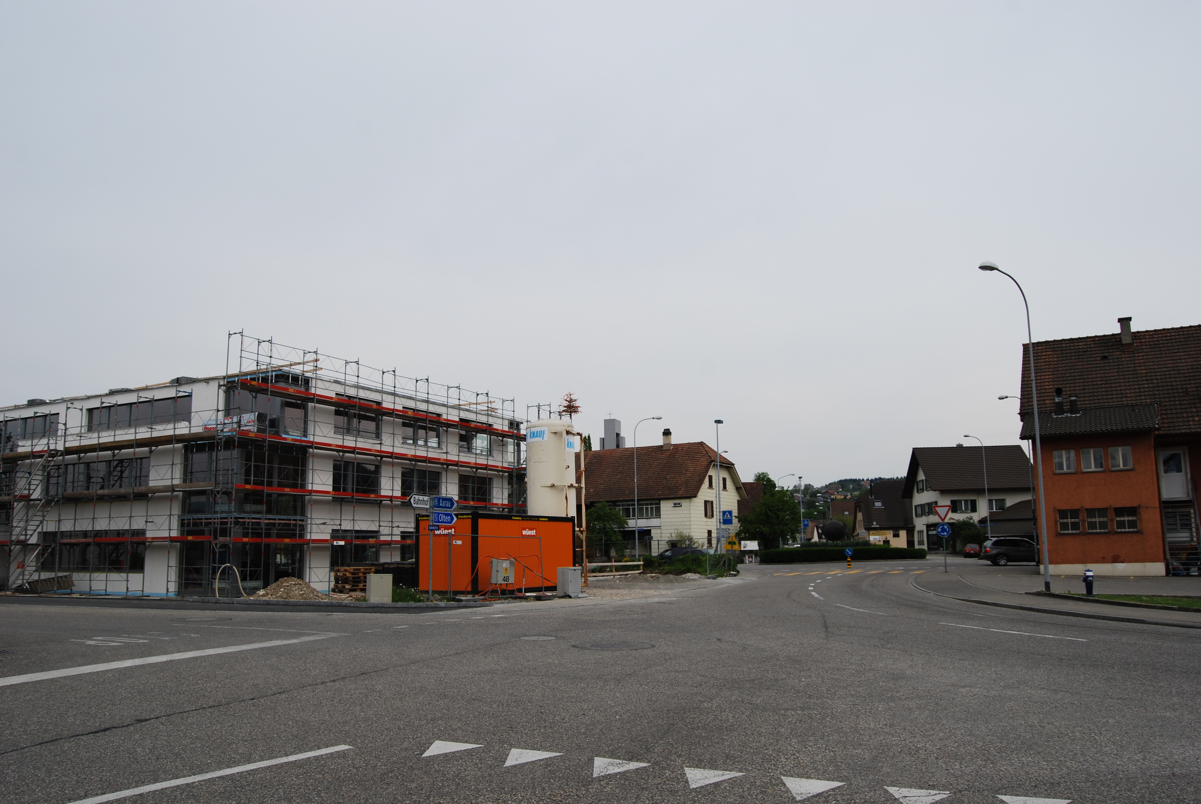 Däniken, canton of Solothurn, Switzerland